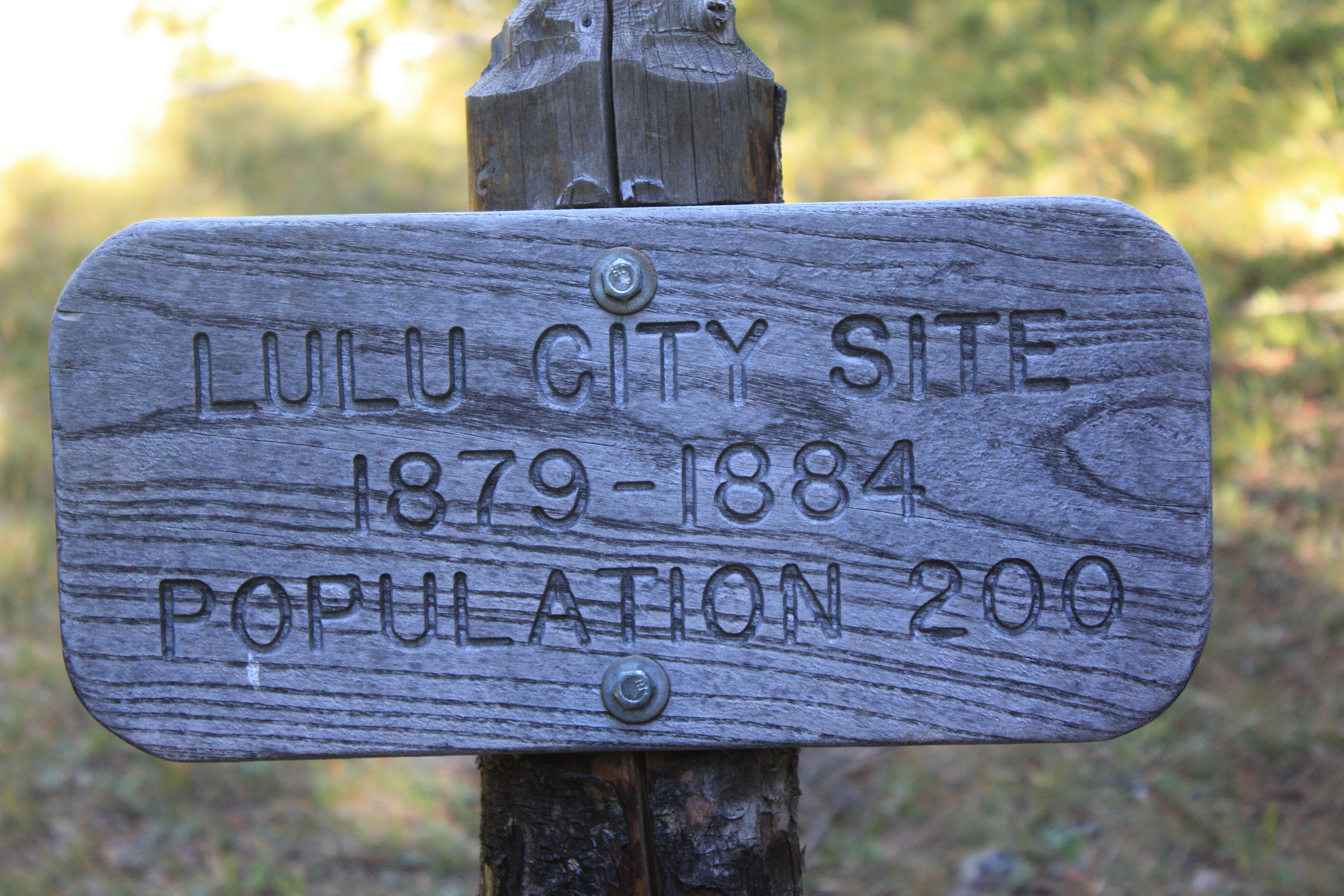 Lulu City historical site is located in the northwest corner of Rocky Mountain National Park. It is accessible by foot path.